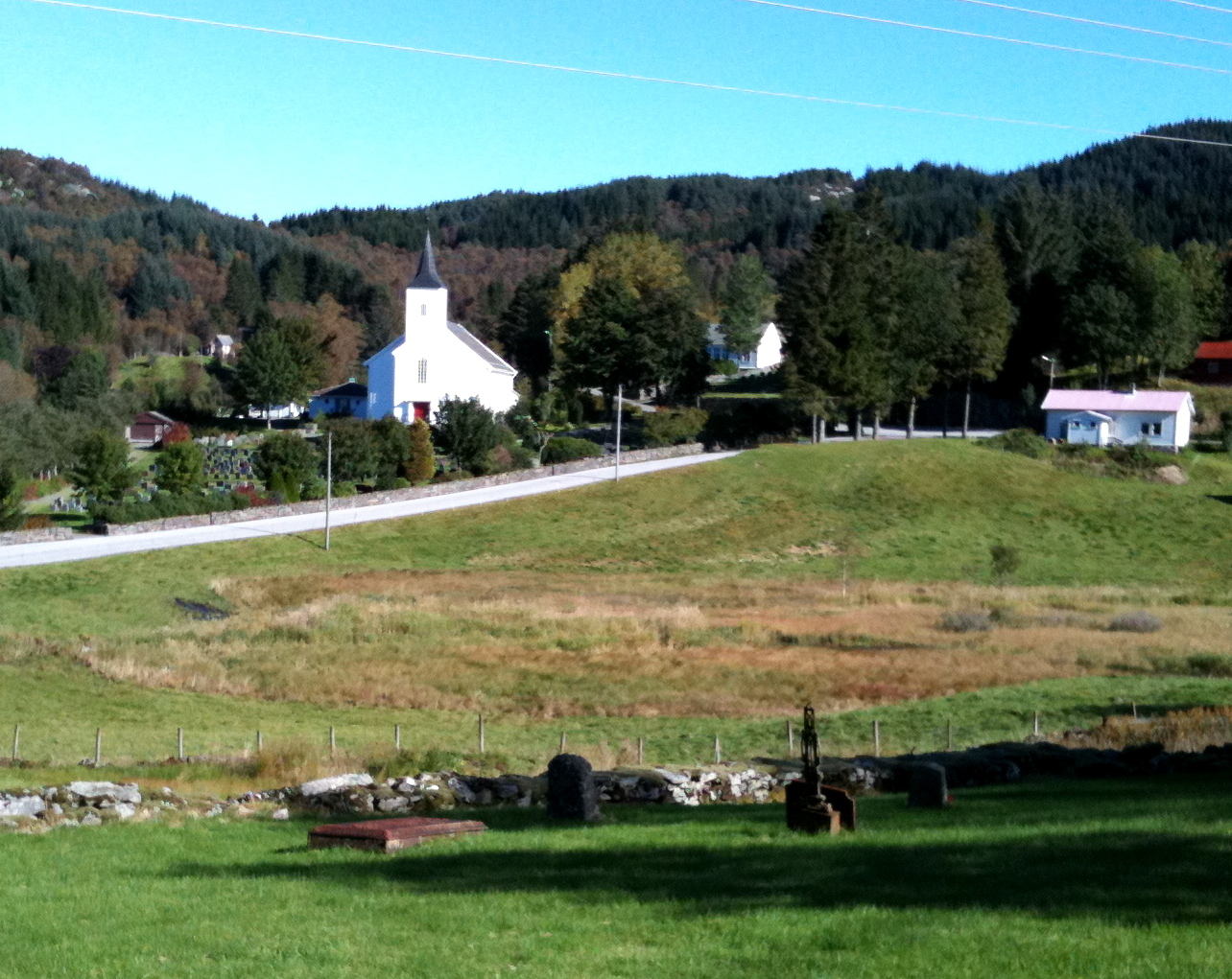 Meland kirke in the municipality of Meland, Hordaland, Norway